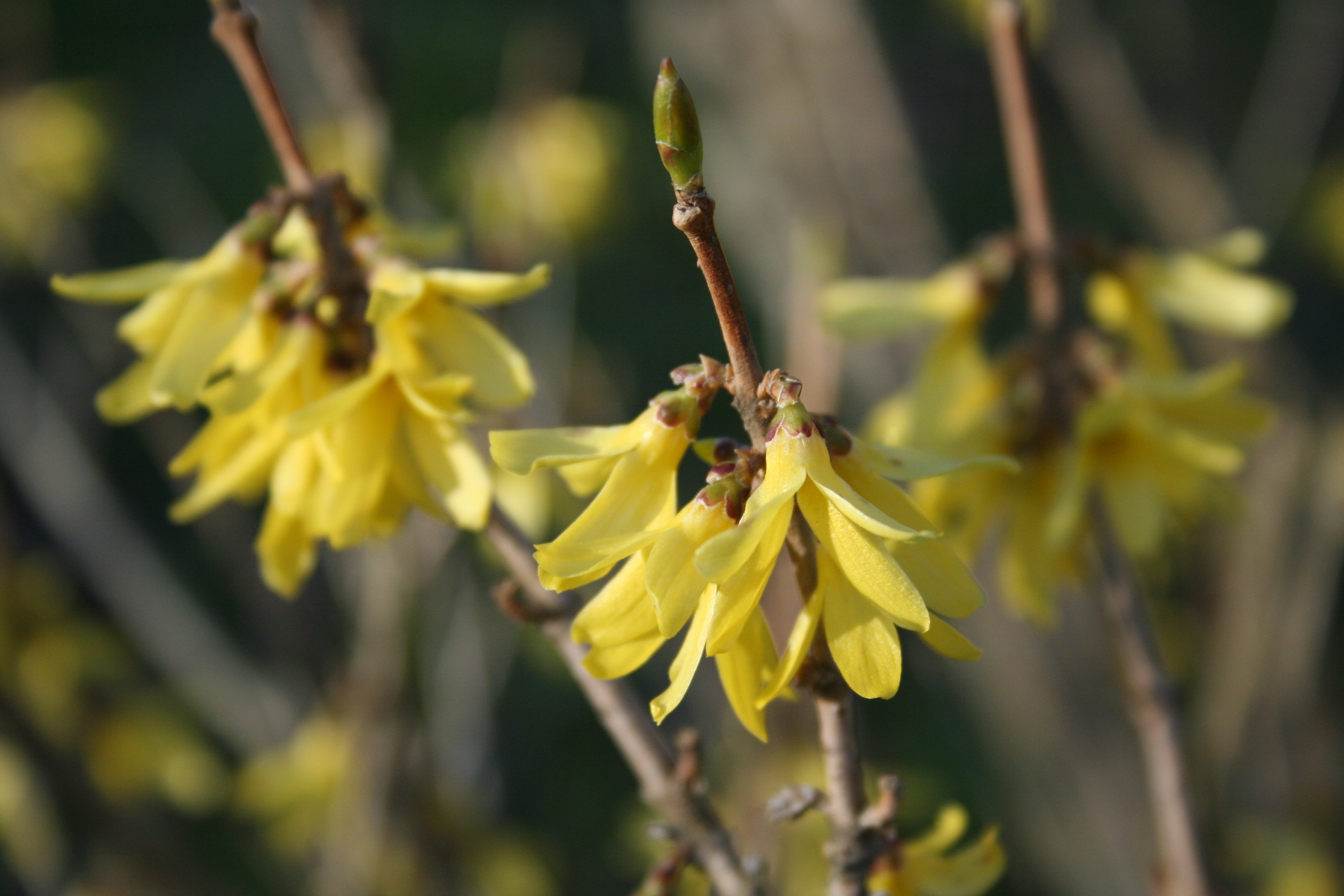 Flowers of Forsythia ovata. Oulu University Botanical Gardens, Finland.